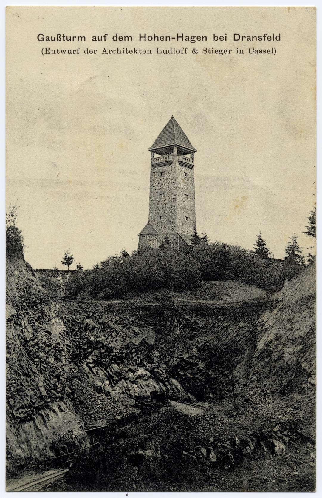 The Gauss tower with stone pit at the Hoher Hagen near Dransfeld Göttingen. He was destroyed in 1963 by stone pit!!!